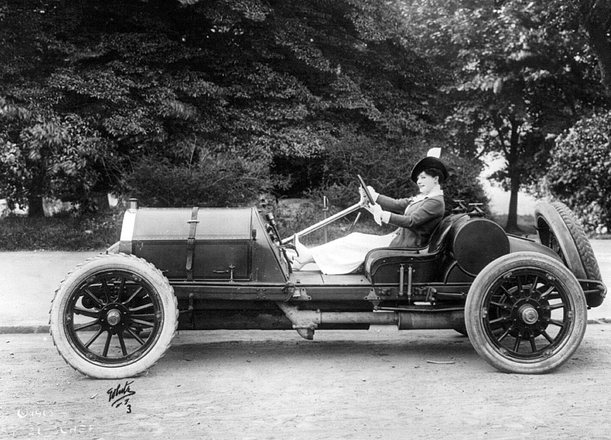 Opera singer and actress Fritzi Scheff at the wheel of a car, 1913.